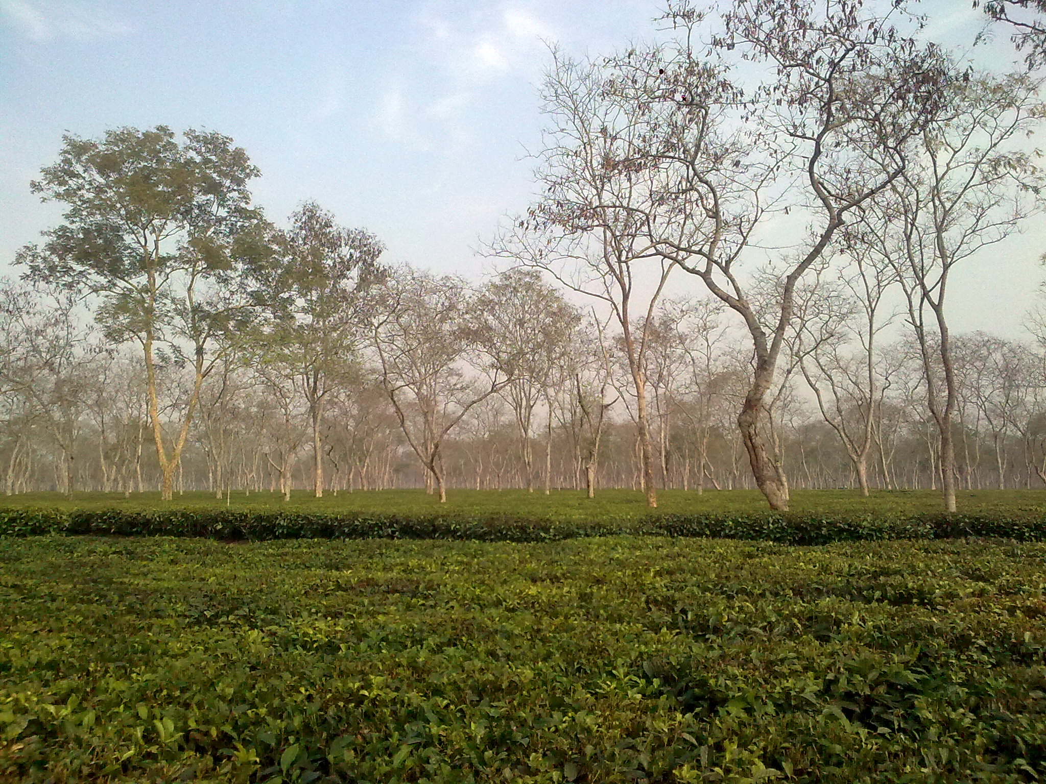 Tea plantation in Sonitpur district of Assam, India